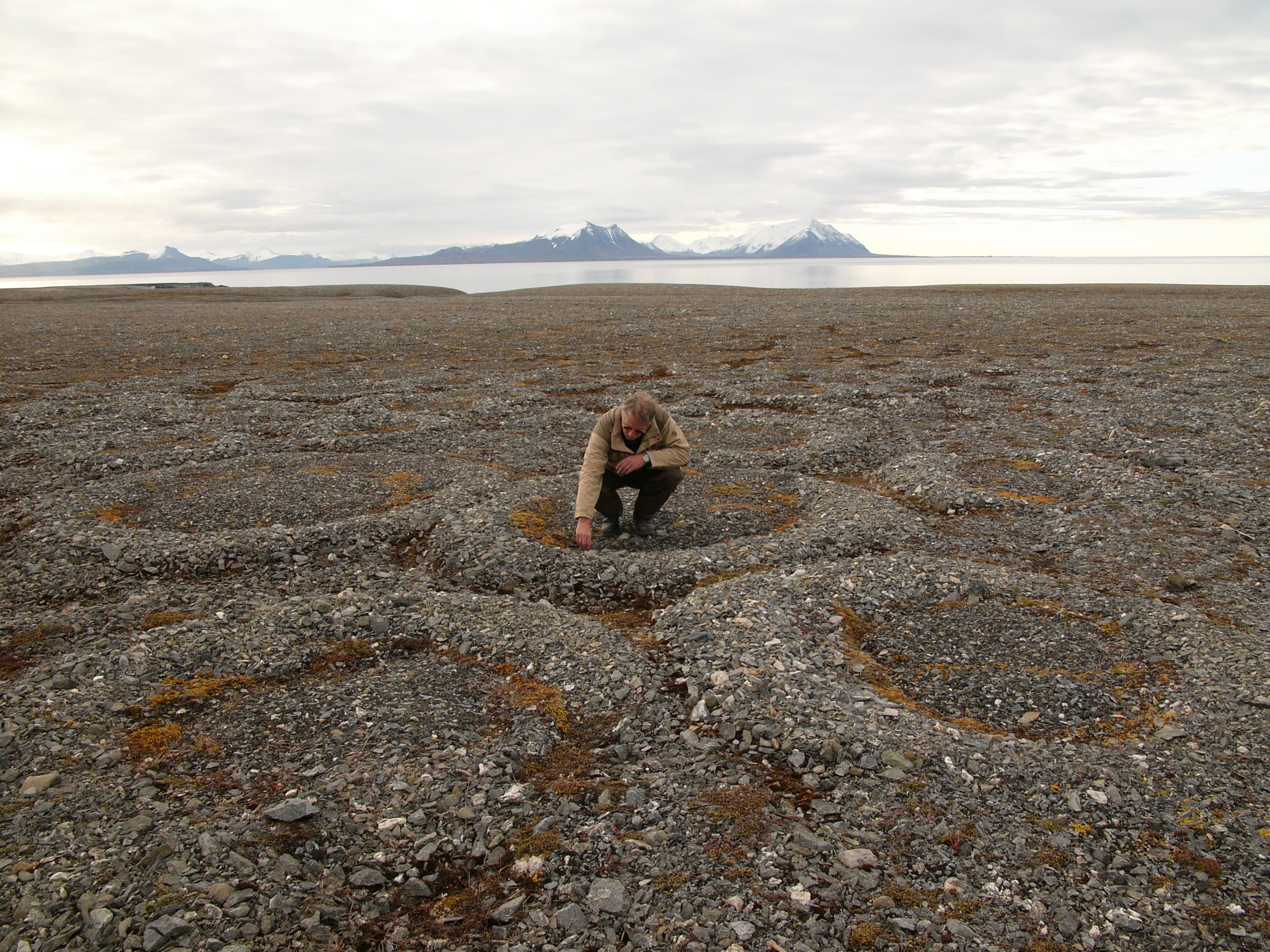 Stone rings of permafrost — Svalbard region, northernmost Norway.